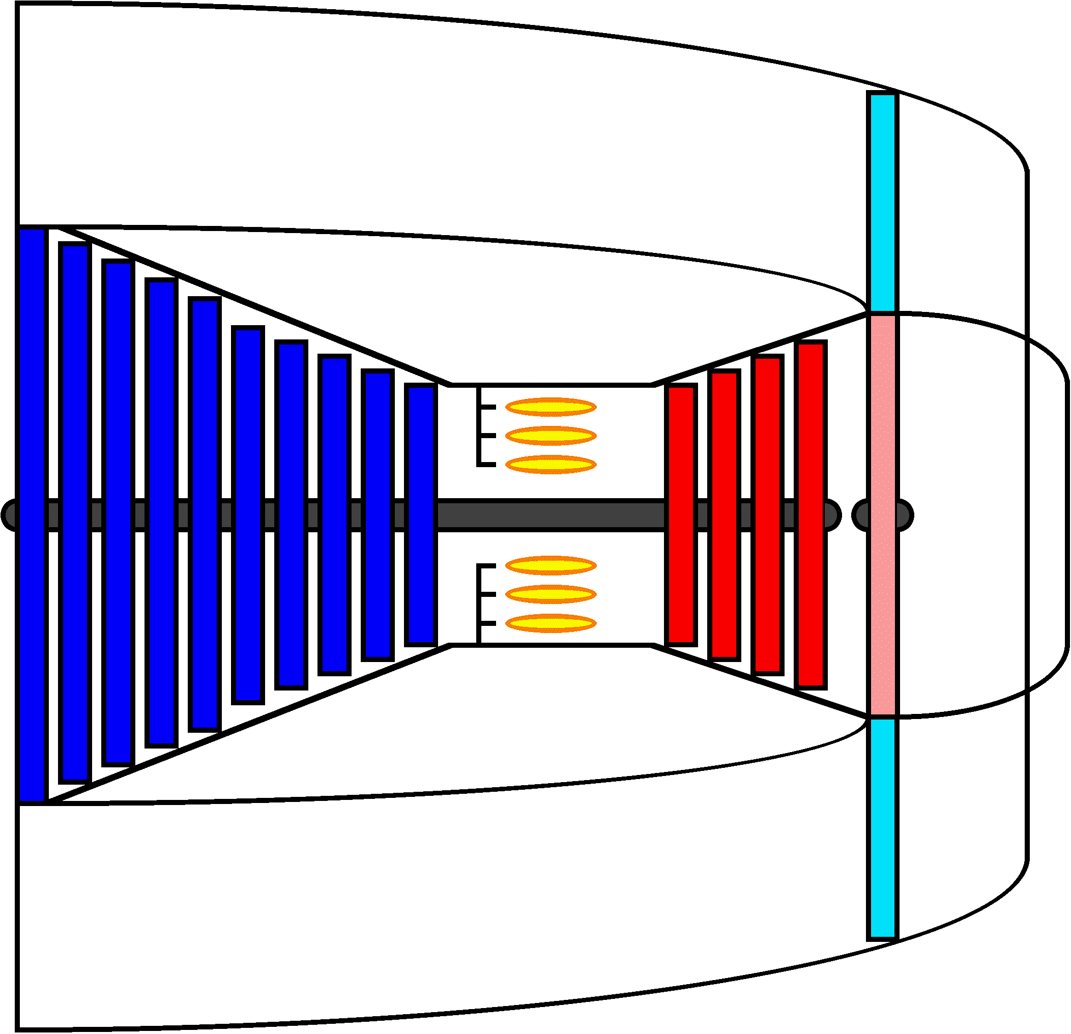 An Aft-Fan jet engine. blue= compressor stages red = turbine stages light red = Aft Fan turbine section turquoise = Aft Fan fan section